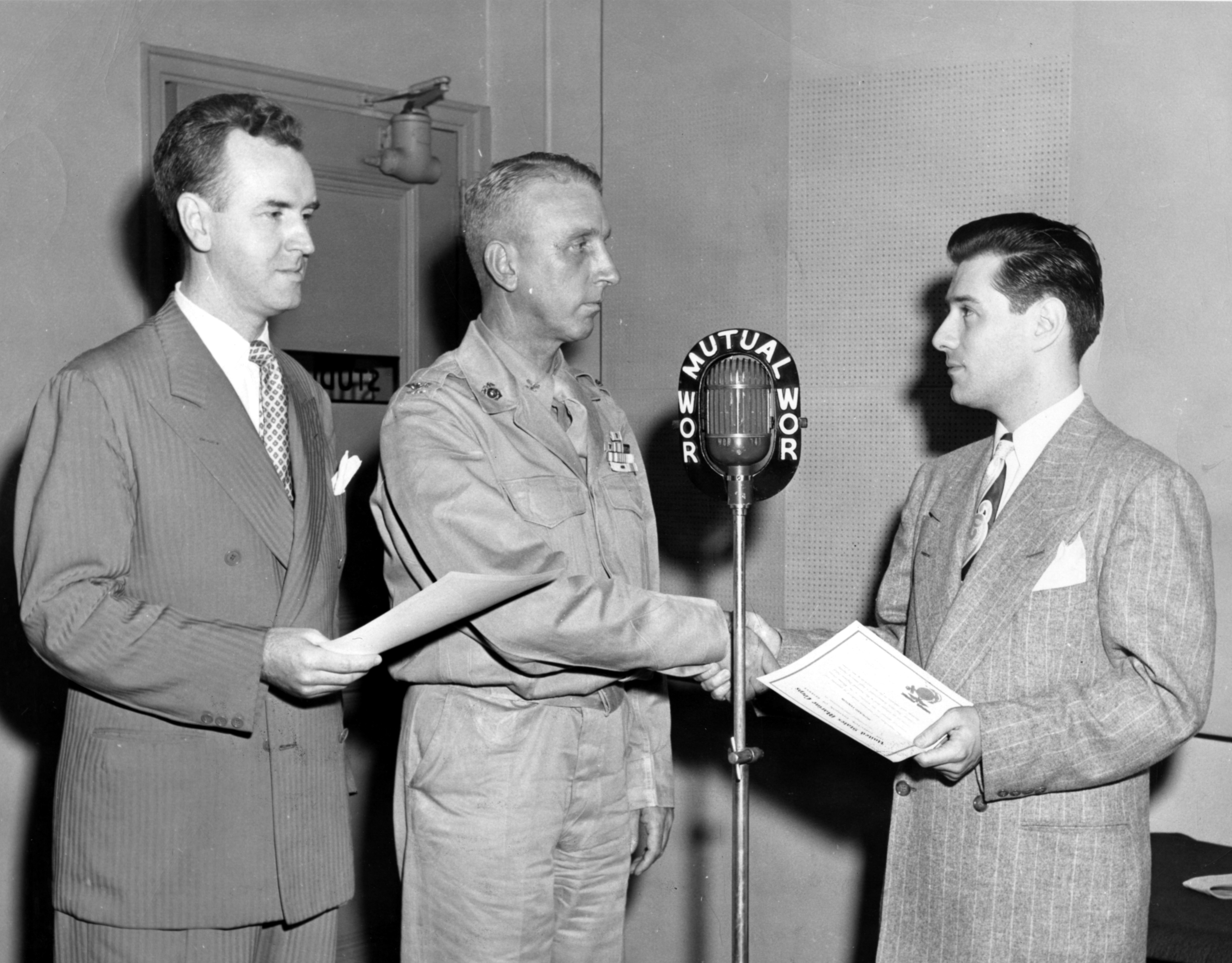 Co-composers of the Prize-Winning Marine Corps Reserve Marching Song, Mr. Howard Fenton and Mr. Gene Bone, receive a Certificate of Appreciation from Colonel John H. Griebel, Director, 3rd Marine Corps Reserve District, in behalf of Major general William T. Clement, Director, Marine Corps Reserve. Following the presentation in New York, the United States Marine Corps Band in Washington, D.C. played the rousing number after the Mutual Broadcasting Network.